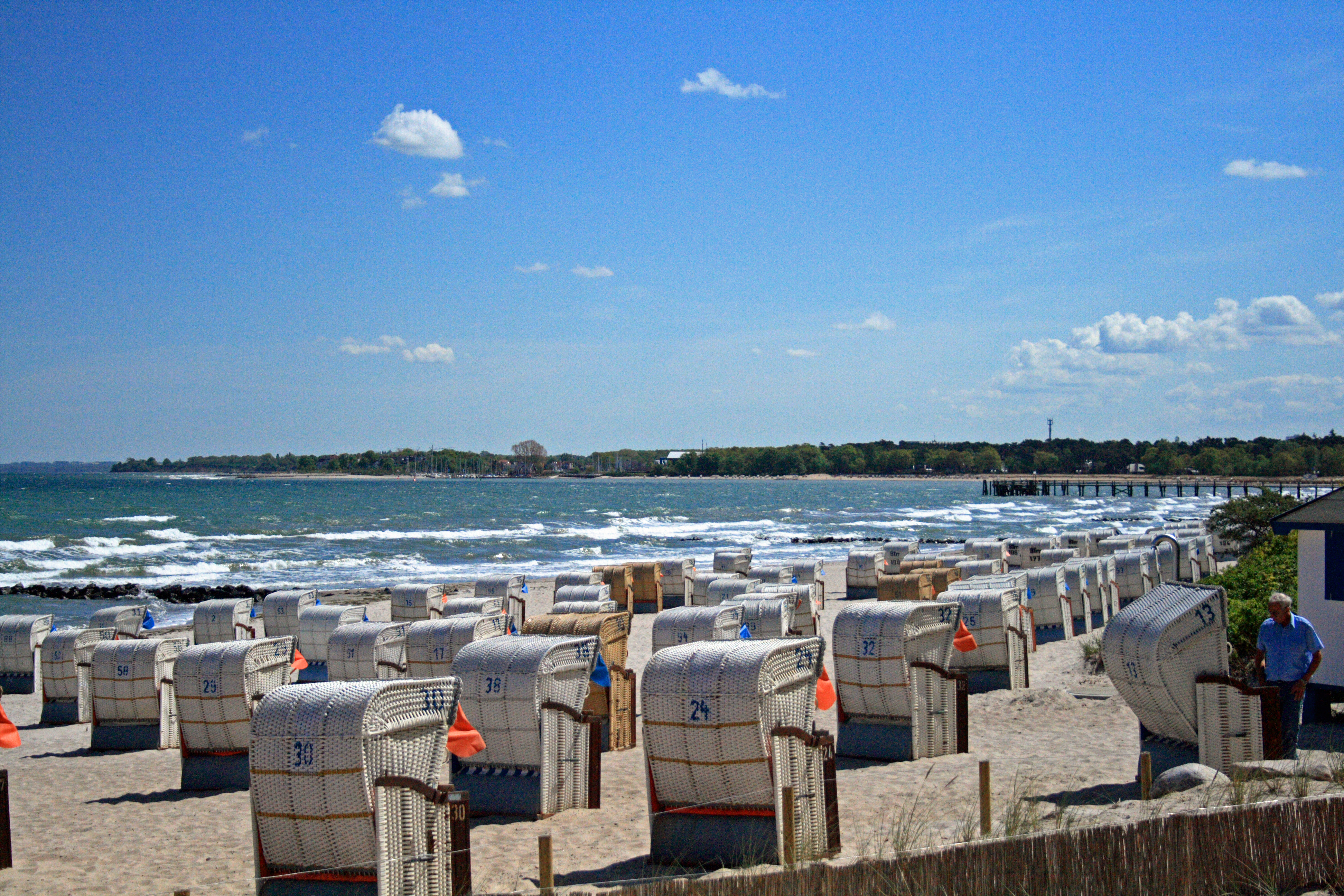 Beach chairs at Timmendorfer Strand